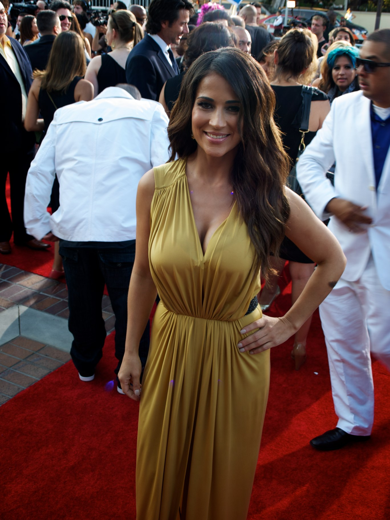 Jackie Guerrido, Alma Awards 2012